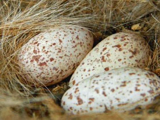 Nest and eggs of a Red-billed Oxpecker (Buphagus erythrorhynchus) - Eburu, Kenya. Impala hair is visible in upper left of image - used by bird to cushion fragile eggs.